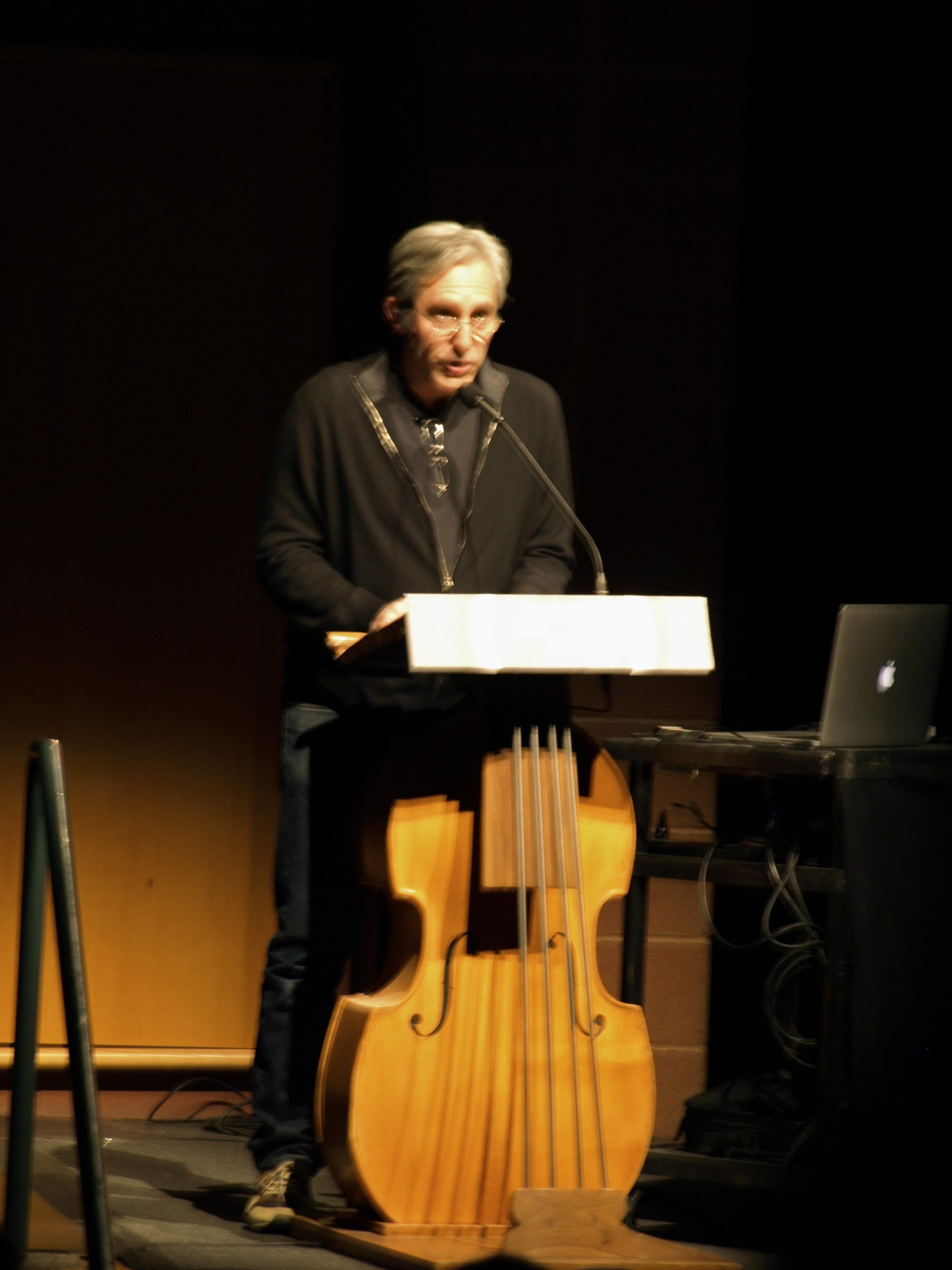 Paul Weitz at 2015 Sundance